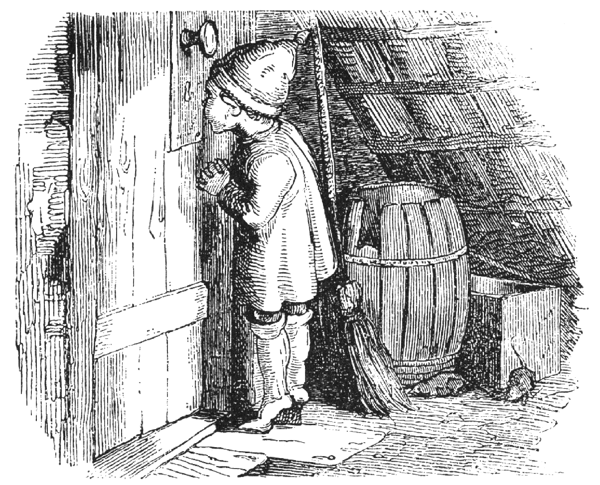 A nisse - an illustration to one of HCAndersen's fables